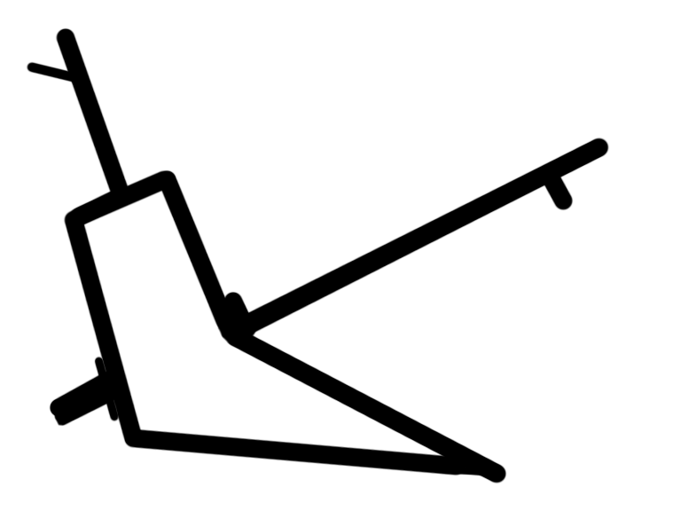 Election Logo of Rastriya prajatantra party of Nepal